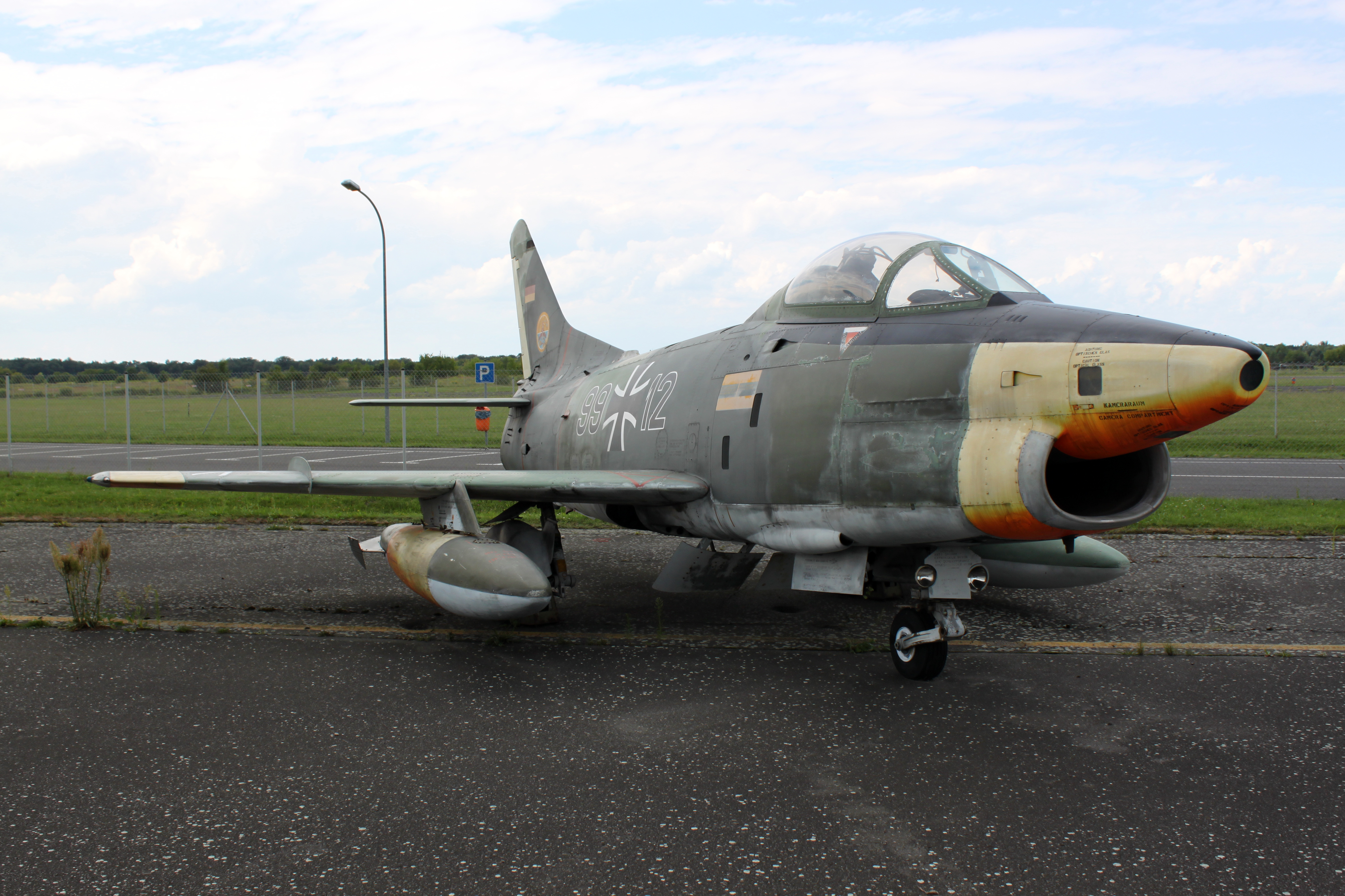 Ground attack and reconnaissance aircraft Fiat G 91 R / 3 "Gina" in the Air Force Museum Berlin-Gatow